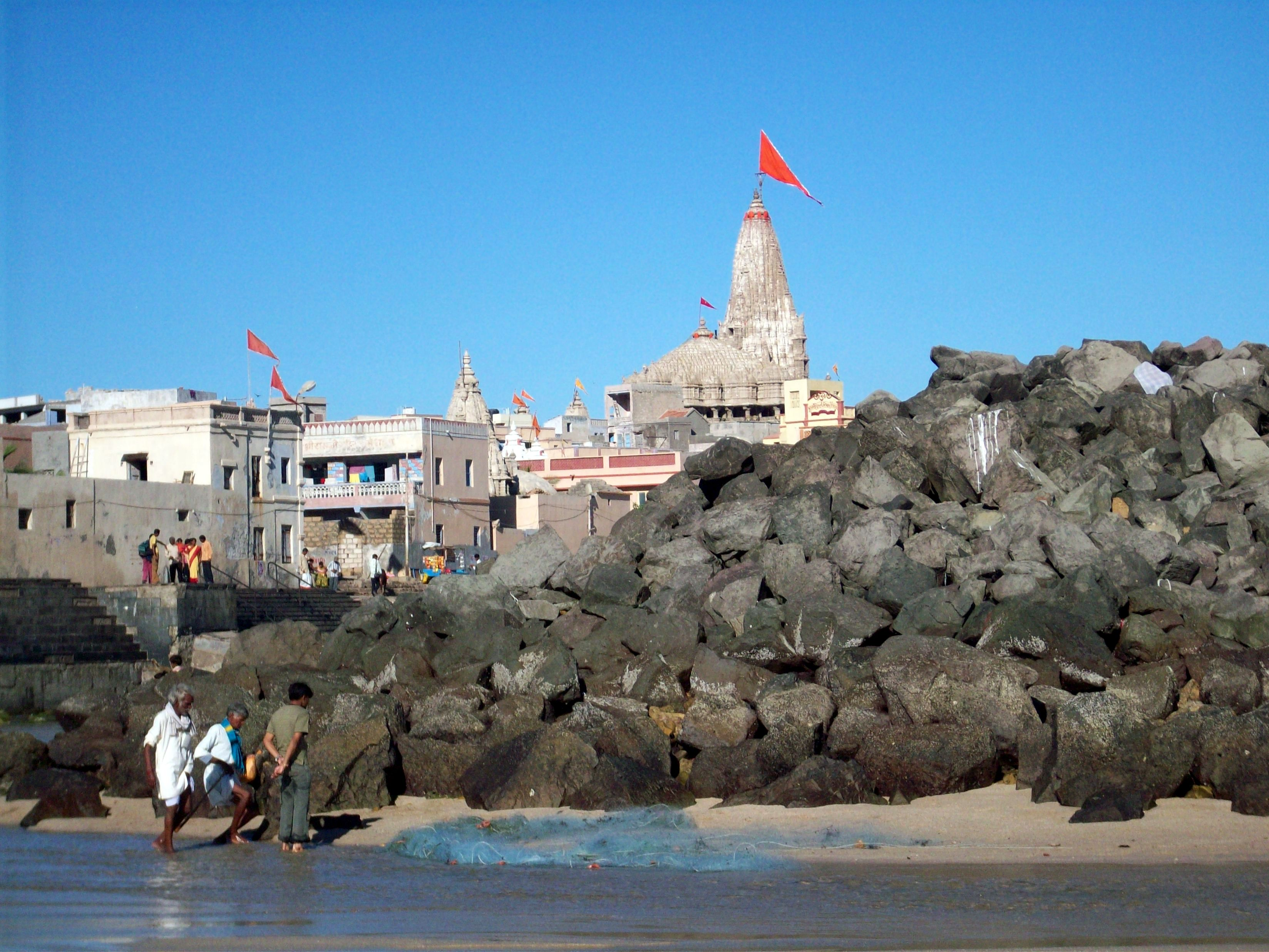 Dwaraka beach with temple at background